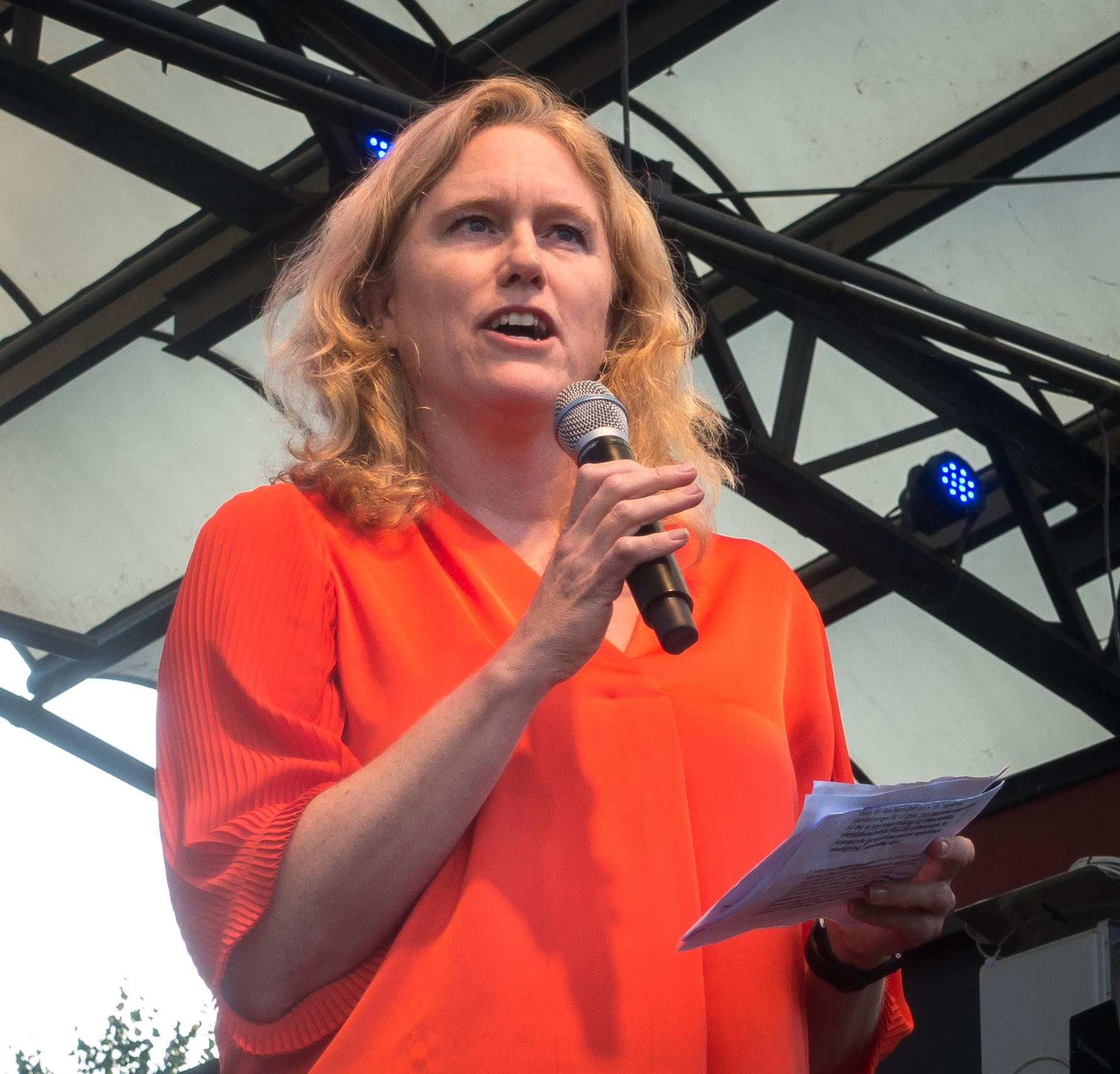 The Fridays for Future climate demonstration on September 27 in Stockholm attracted 50,000 people and culminated in Kungsträdgården with concerts and speeches.